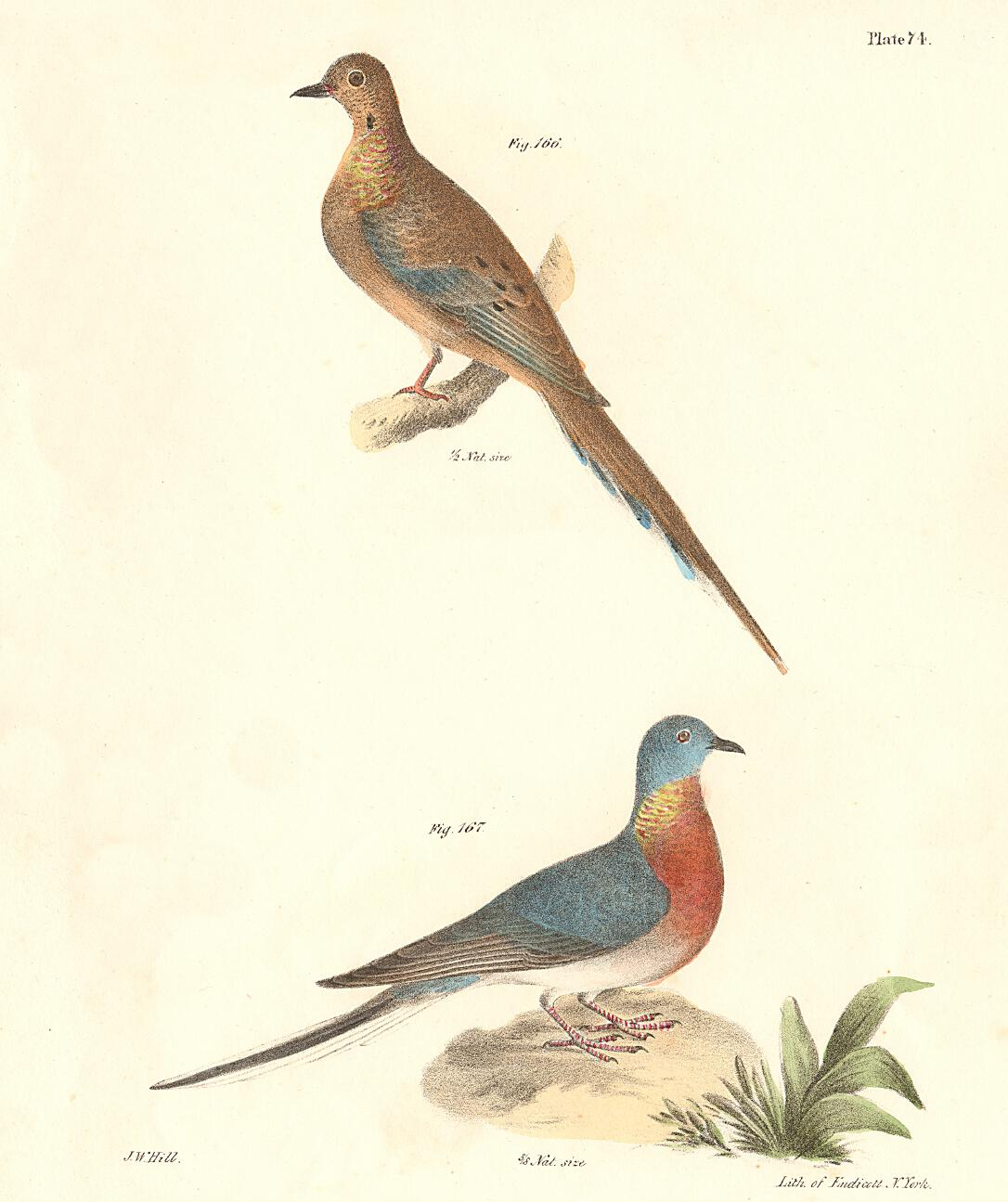 Plate LXXIV Figures 166: The Carolina Turtle Dove (Ectopistes carolinensis) (aka Mourning Dove-Zenaida macroura), & 167: The Wild Pigeon (Ectopistes migratoria) (aka Passenger Pigeon-Ectopistes migratorius) by Hill in De Kay's Zoology of New York State.